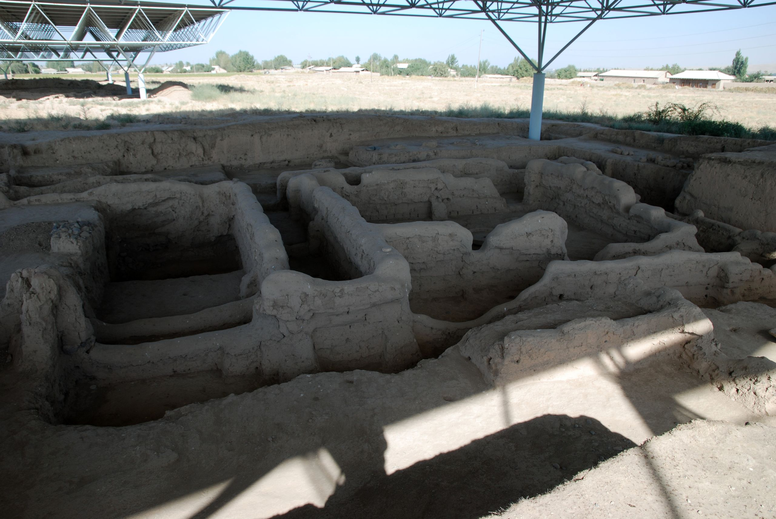 Sarazm, Sughd province, area XI